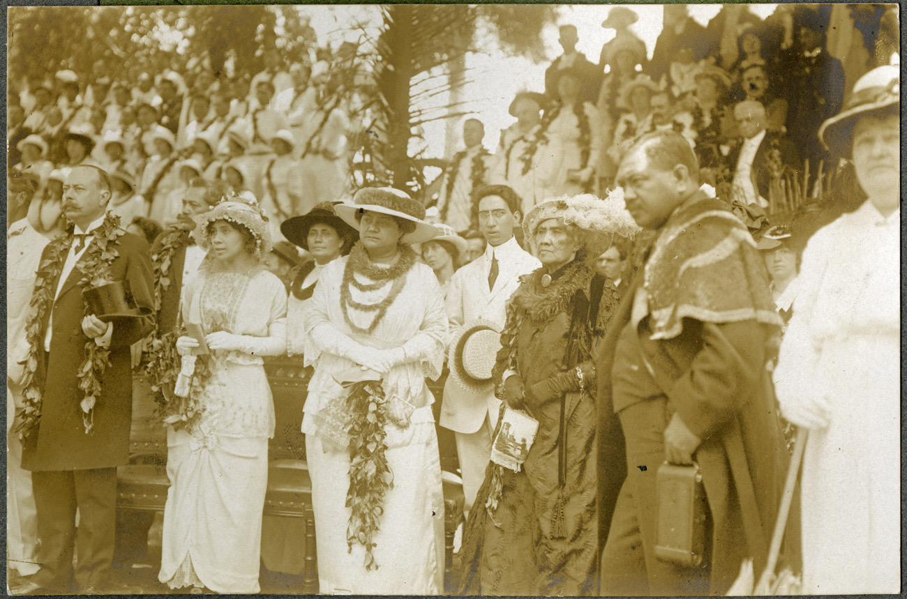 Queen Liliuokalani at the first Kamehameha Day parade in 1914. Left to right: Chief Justice Alexander G. M. Robertson, Mayor Joseph J. Fern, Ululani McQuaid Robertson, Emma Fern, Princess Elizabeth Kahanu Kalanianaʻole, John ʻAimoku Dominis, Queen Lili'uokalani, and Prince Jonah Kūhiō Kalanianaʻole.